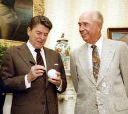 Walter Alston with Ronald Reagan